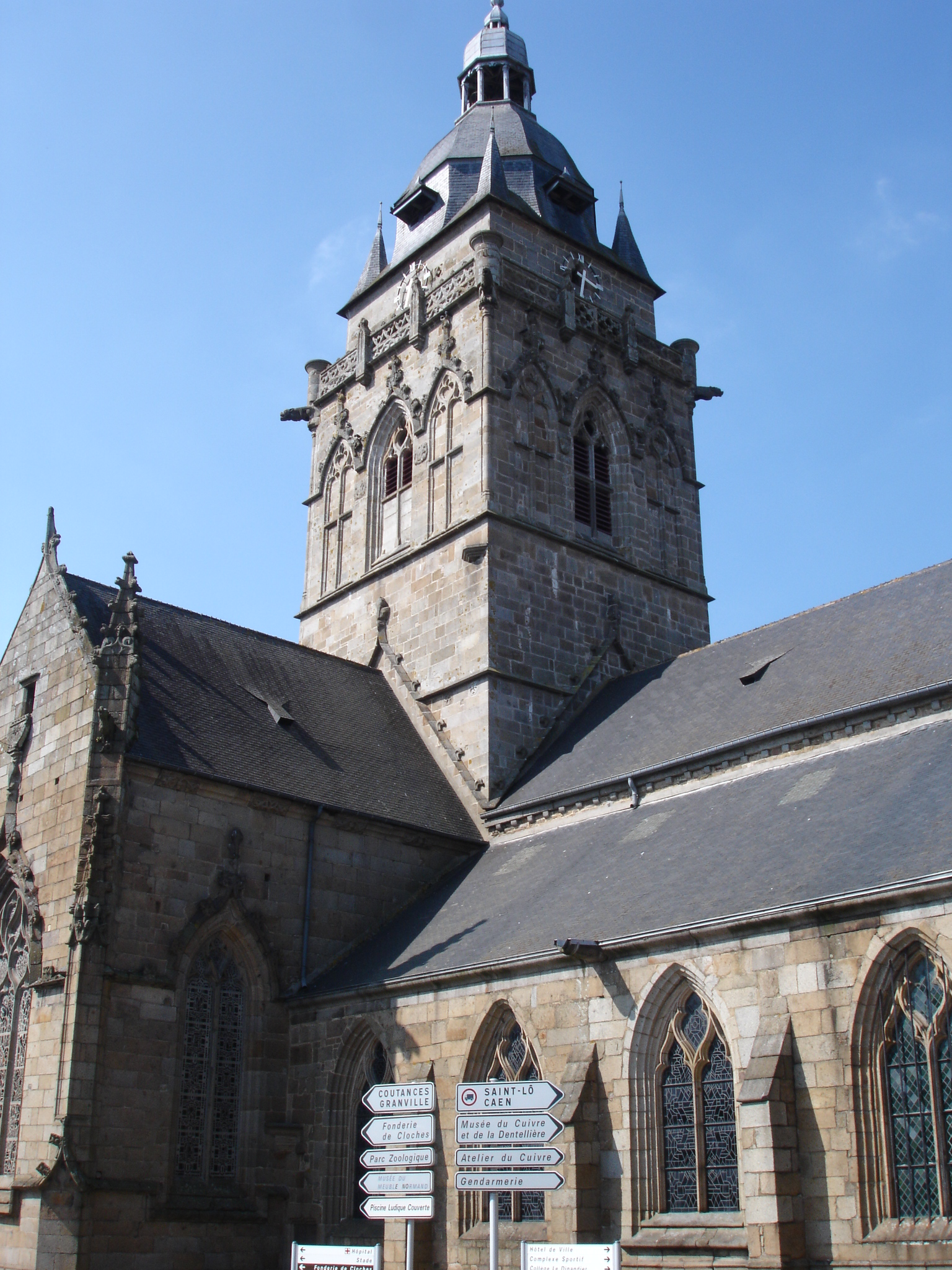 The church of Villedieu-les-Poêles in Manche, Normandy, France.